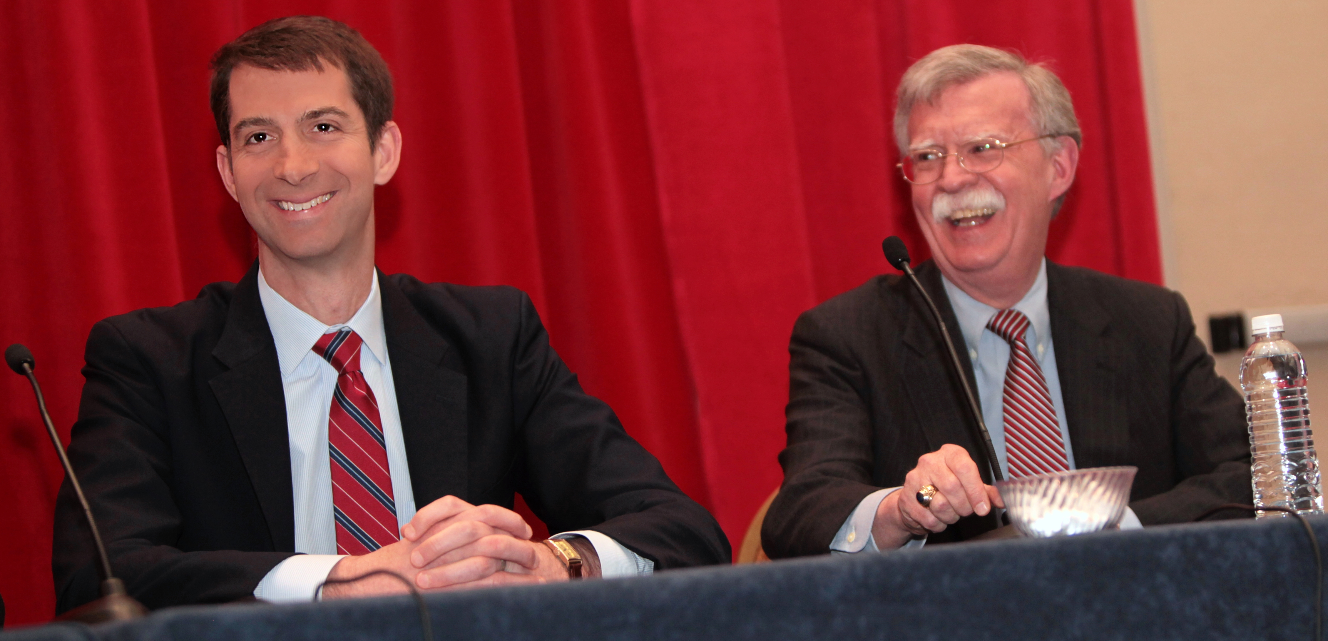 in National Harbor, Maryland